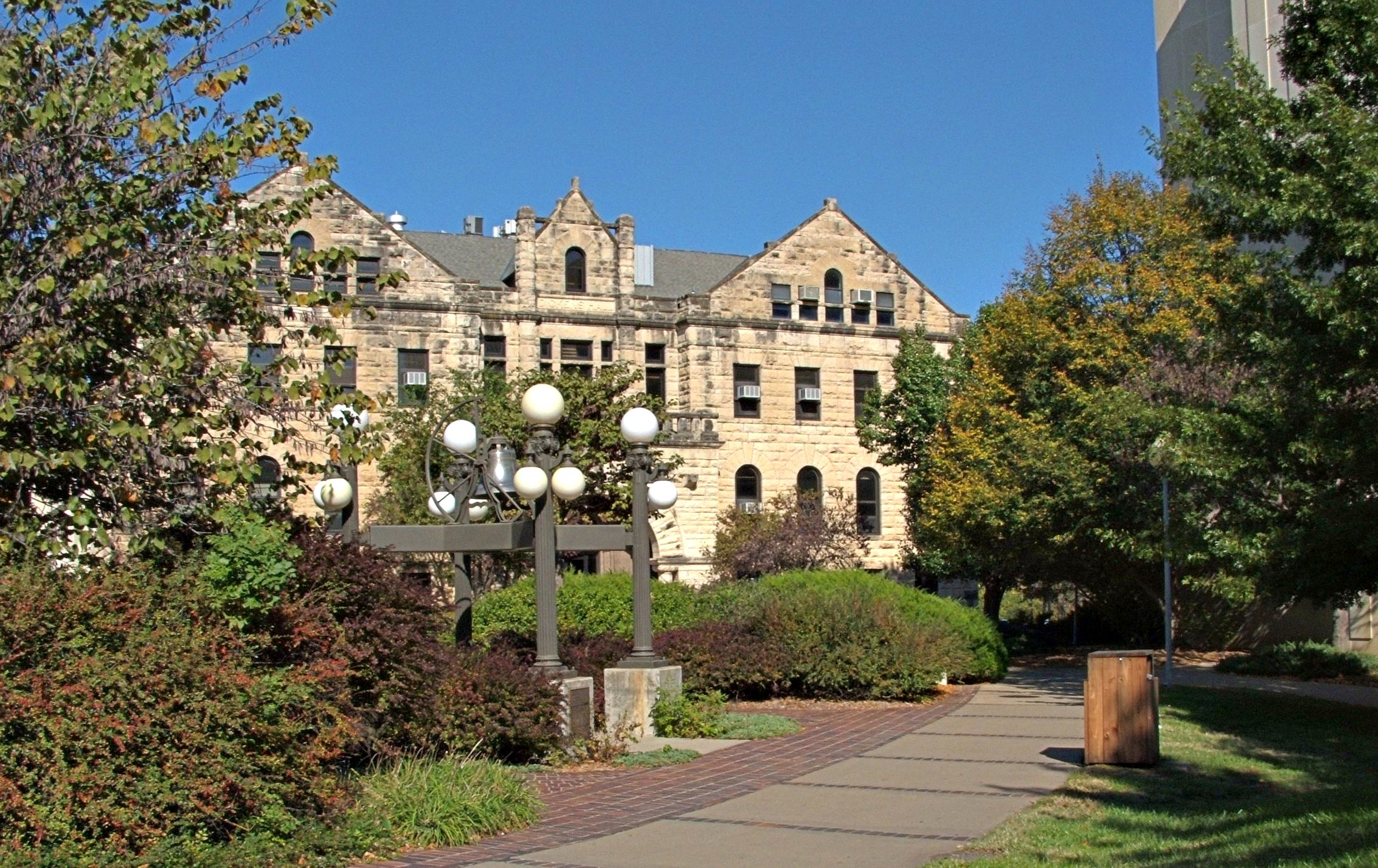 The Bluemont Bell and Dickens Hall at Kansas State University in Manhattan, Kansas, USA. Taken October, 2005 modified with the GIMP